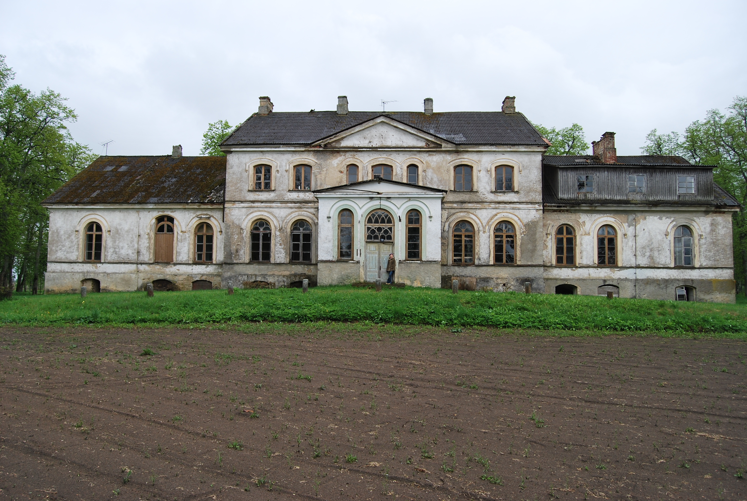 Vanamõisa manor, located in Lääne-Viru district, Estonia.